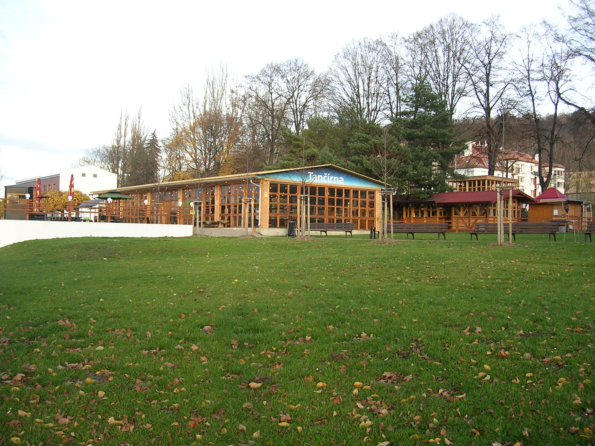 Podolí, Prague.